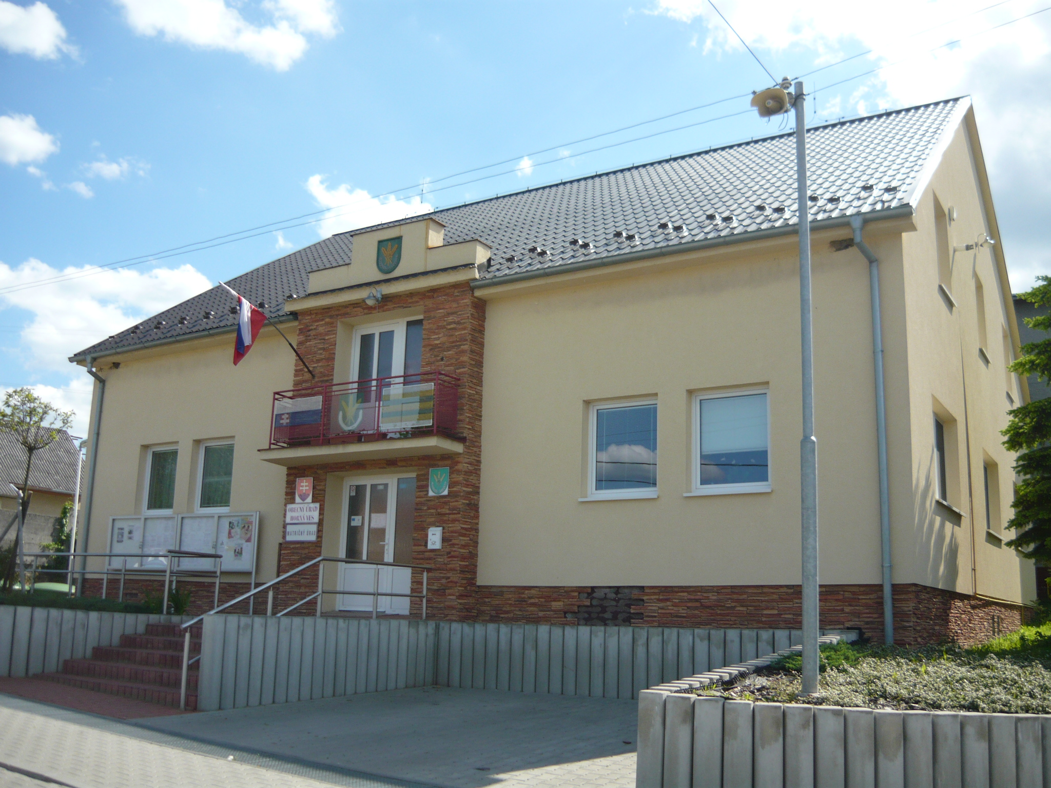 Town hall of Horná Ves, Prievidza District, Slovakia.